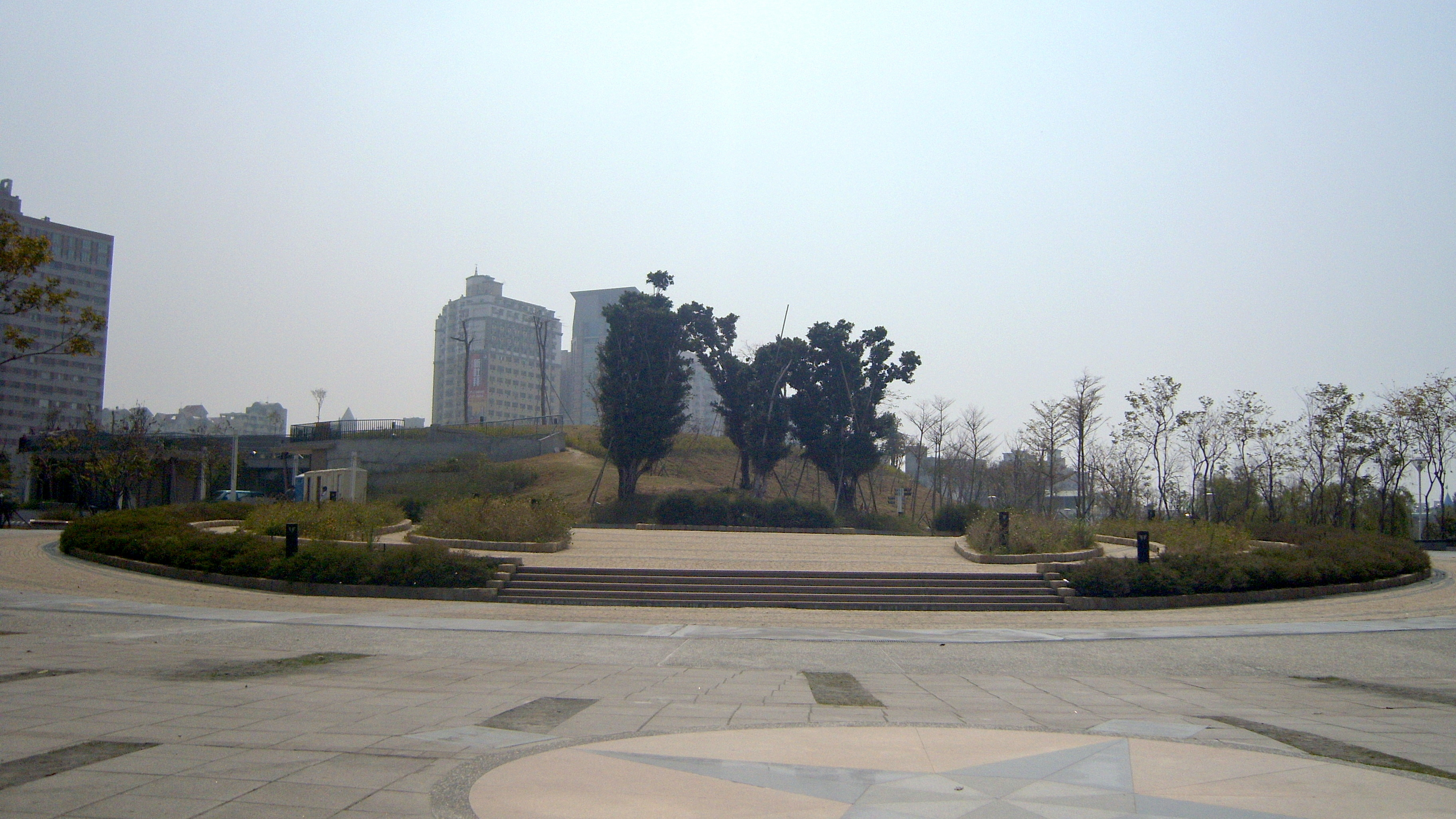 Wen-Hsin Forest Park, shot near Hui-wen Road in Taichung City.